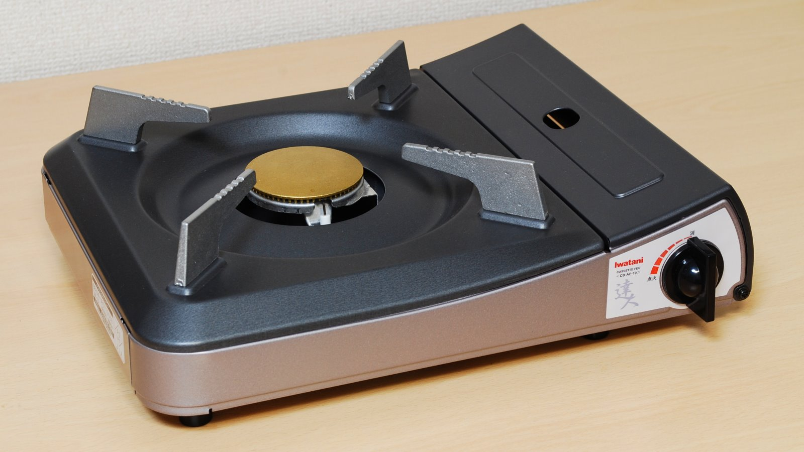 Iwatani Cassette Feu "Tatsujin" (CB-AP-10)